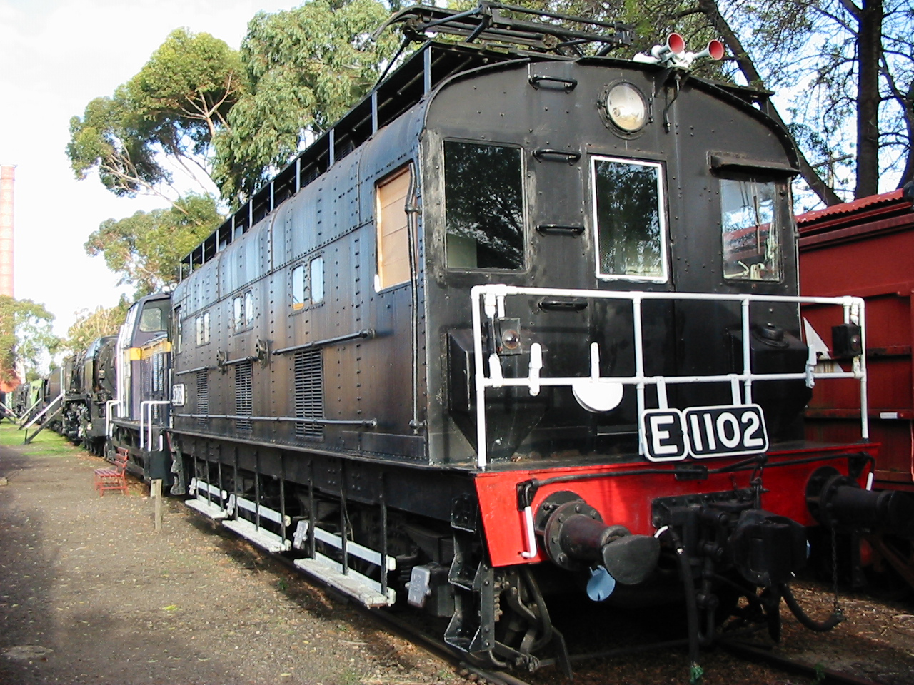 Victorian Railways E class (electric) locomotive preserved at the Australian Railway Historical Society railway museum at North Williamstown, Victoria.